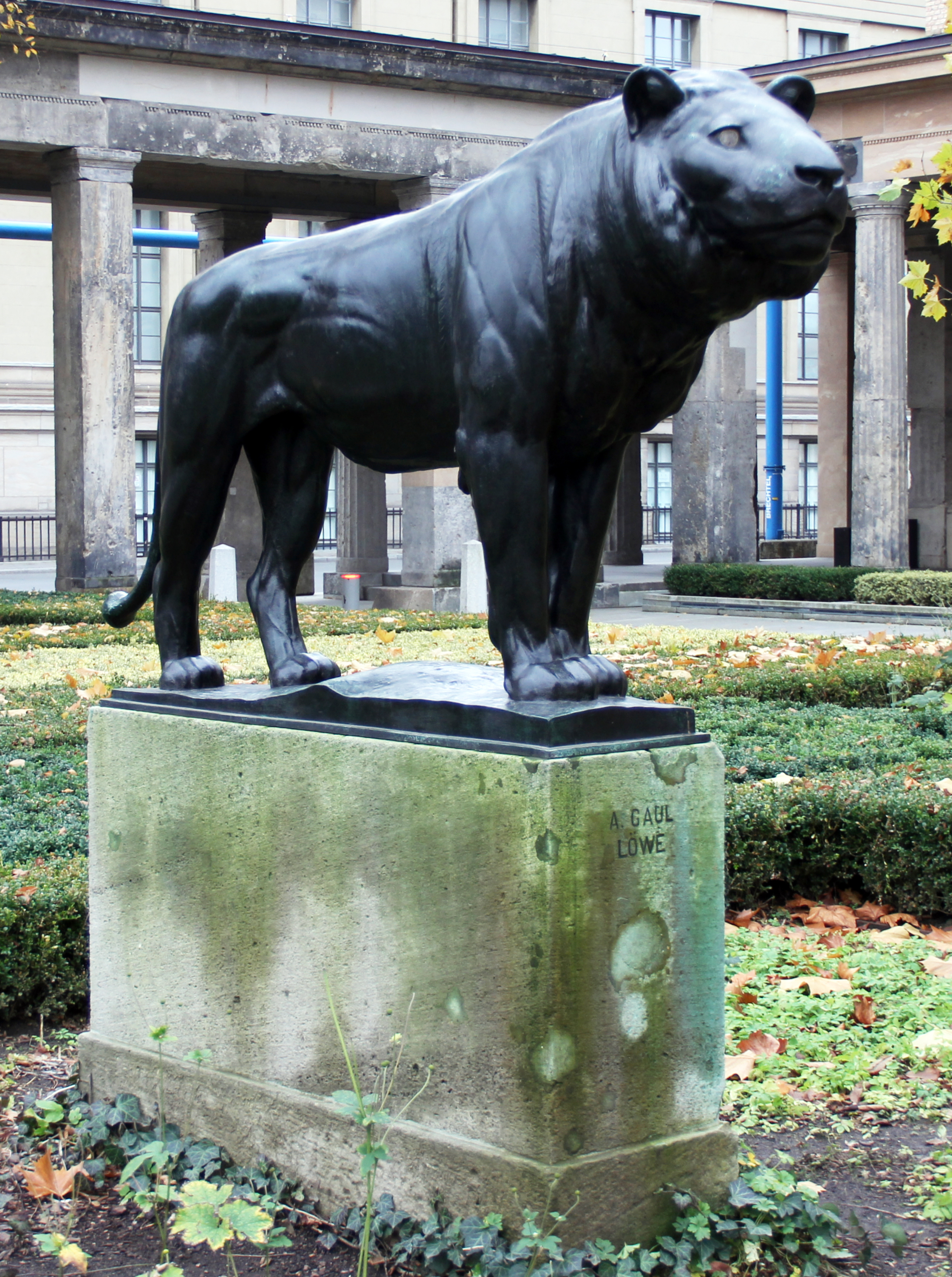 Sculpture, "Löwe" by August Gaul, 1904, Bodestraße 1-3, Berlin-Mitte, Germany